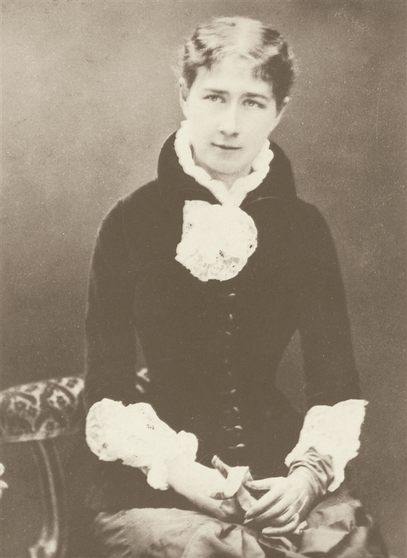 Mary Colman Wheeler (1846-1920) as a young woman. Wheeler founded the Wheeler School in Providence, Rhode Island.